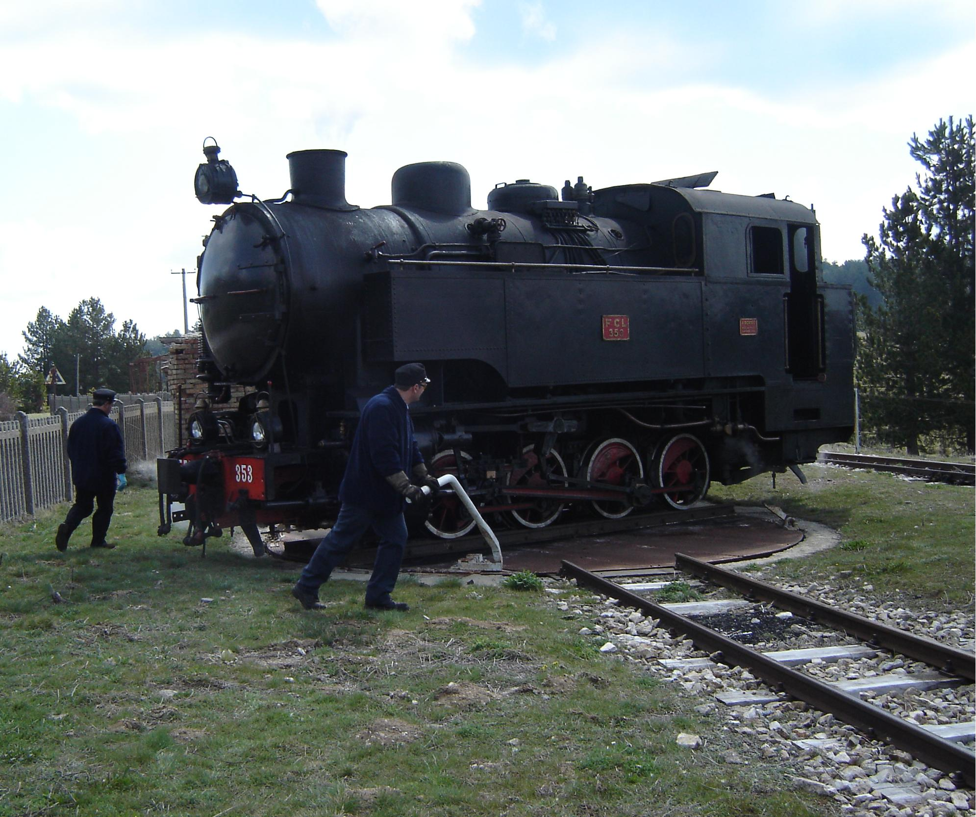 FCL 353 steam locomotive in San Nicola Silvana Mansio